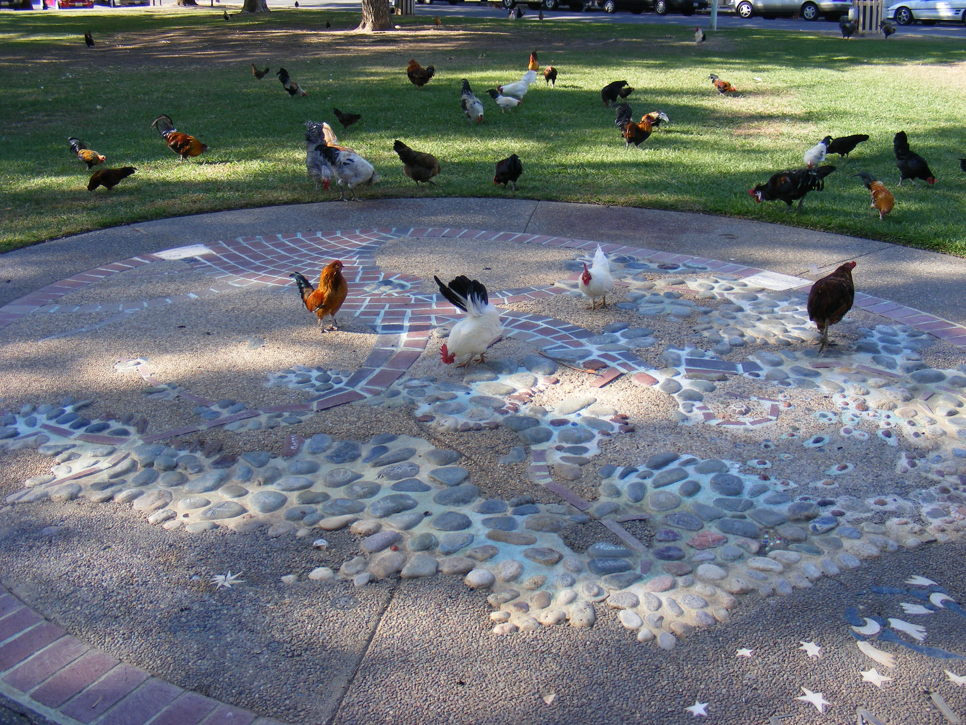 The chickens are an attraction an annoyance found in old-town Fair Oaks, California